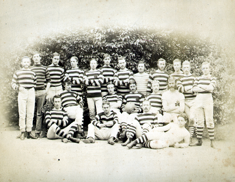 A team of Clifton RFC for the 1874-75 season. Alexander Kaye Butterworth is at far right of photo.